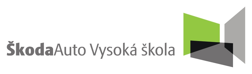 SAVS University logo